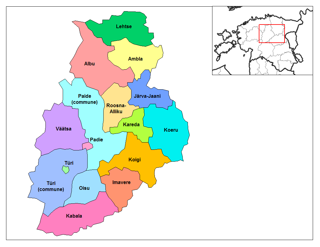 Map of the municipalities of Jarva county in Estonia. Created by Rarelibra 17:32, 22 December 2006 (UTC) for public domain use, using MapInfo Professional v8.5 and various mapping resources.